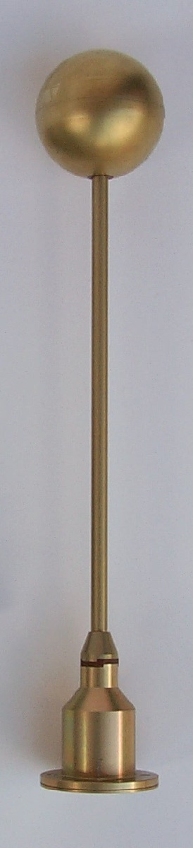 One of the two Langmuir probes from the Swedish Institute of Space Physics in Uppsala, Sweden, flying on ESA's Rosetta mission to comet 67P/Churyomov-Gerasimenko. The probe radius is 25 mm, and the material is titanium with a coating of titanium nitride.